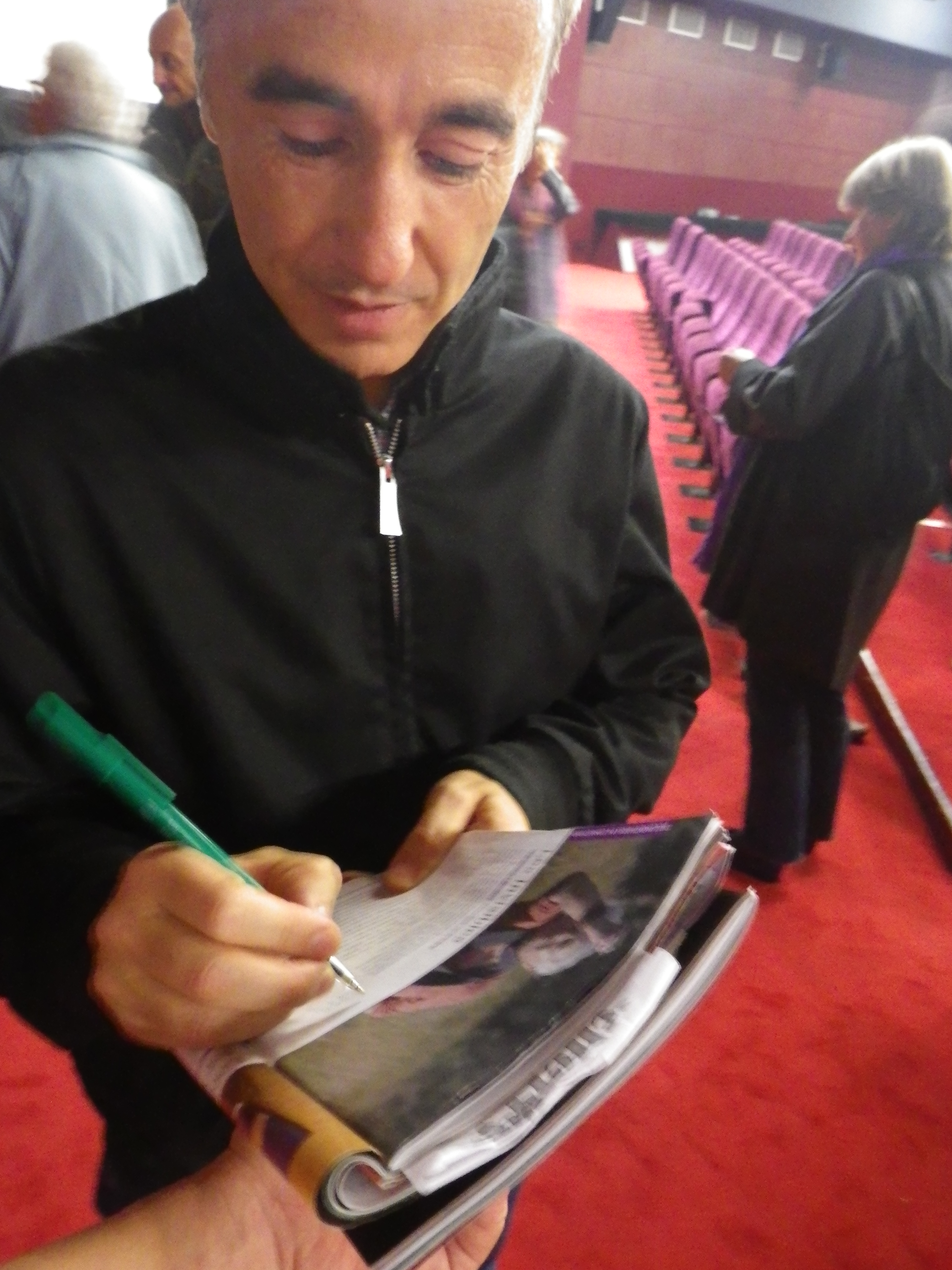 18th Chéries-Chéris Festival Film, Forum des Images, October 2012, Paris, France.